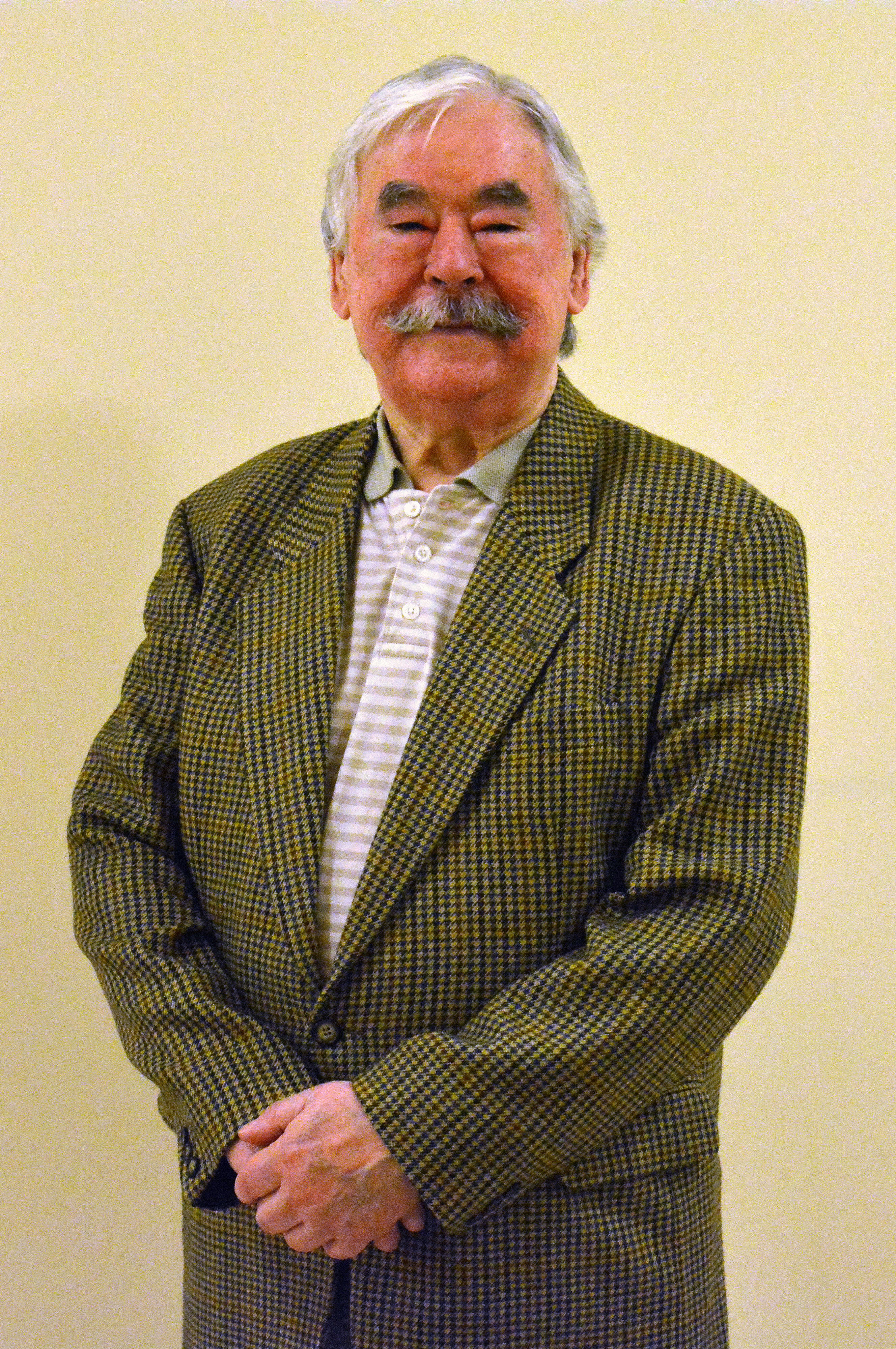 Istvan Csukas Hungarian writer - Budapest, 21 may 2016